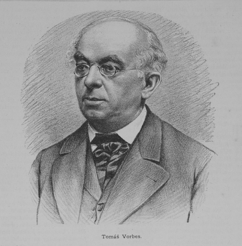 Portrait of Tomáš Antonín Vorbes (1815-1888), Czech high school teacher and author of didactical literature.